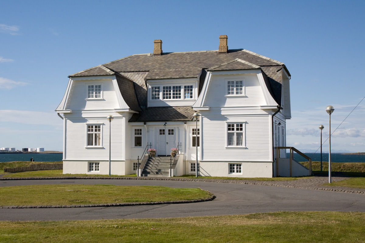 Höfði, guesthouse of the city of Rekjavík, place of the Rekjavík summit between Ronald Reagan und Mikhail Gorbachev in 1986